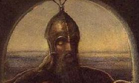 Death of Earl Siward (detail)